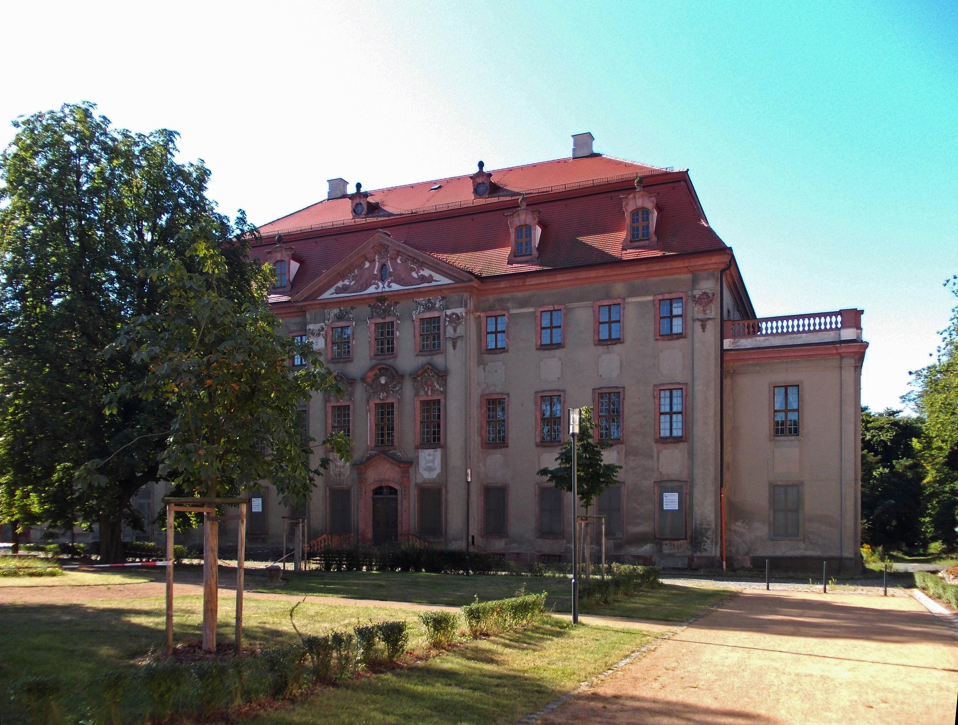 North side of Brandis Castle (Leipzig district, Saxony)